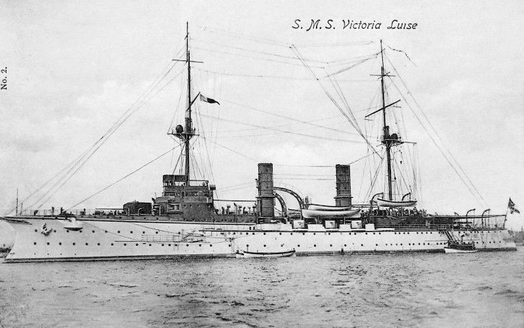 German armored cruiser Victoria Louise